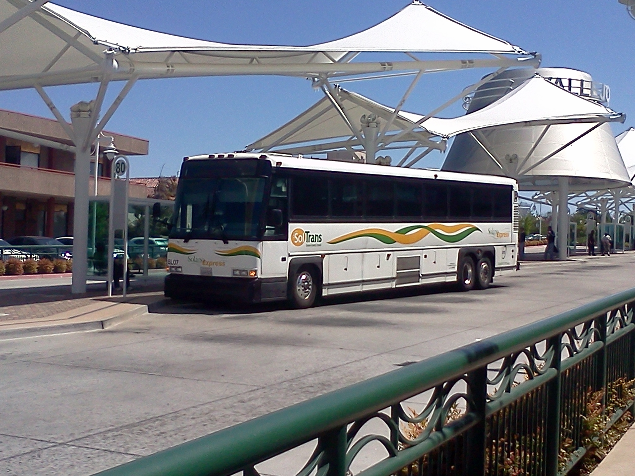 SolTrans Branded Solano Express MCI d4500 bus